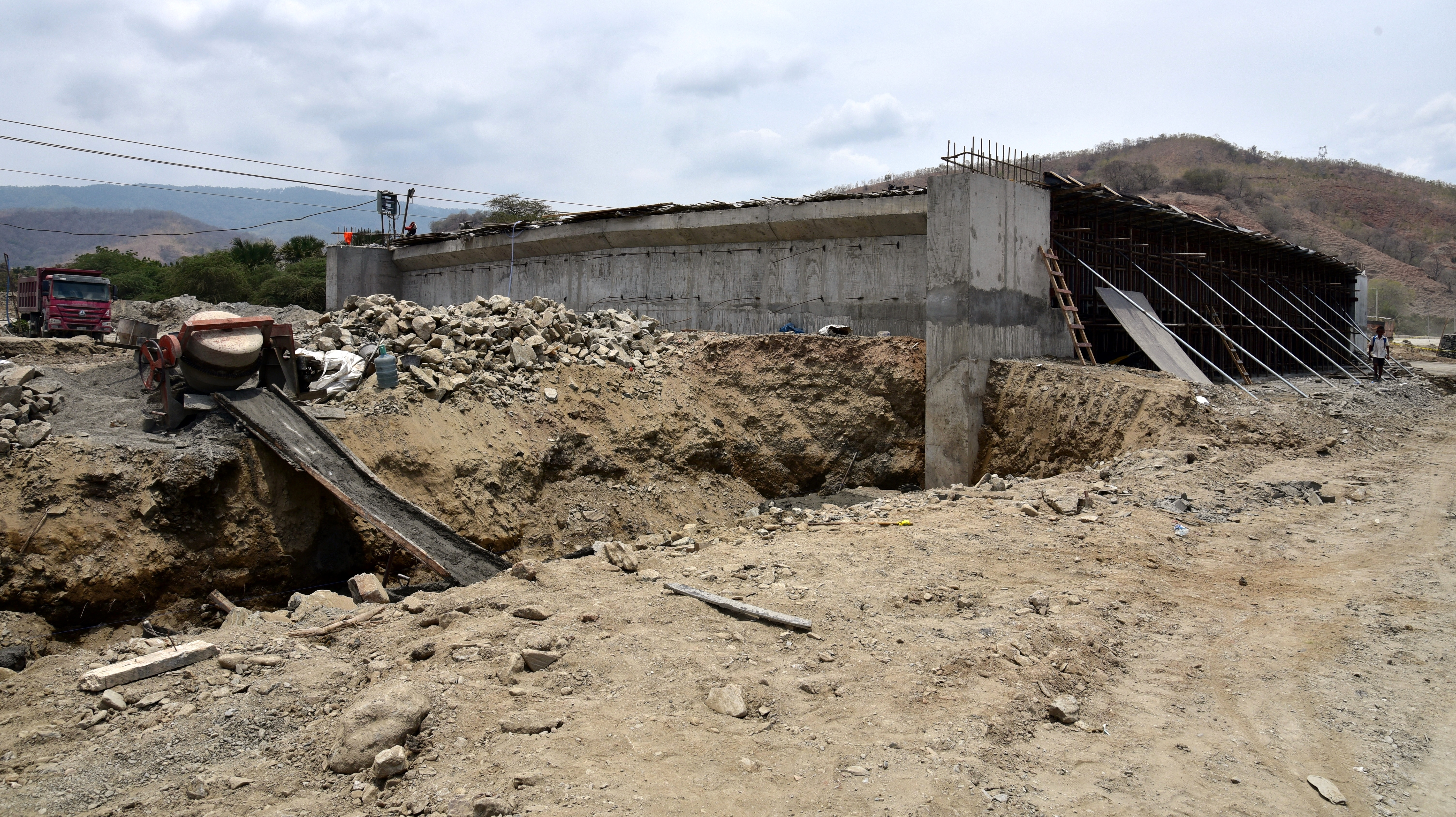 View of roadworks on National Highway 3, Tibar, East Timor